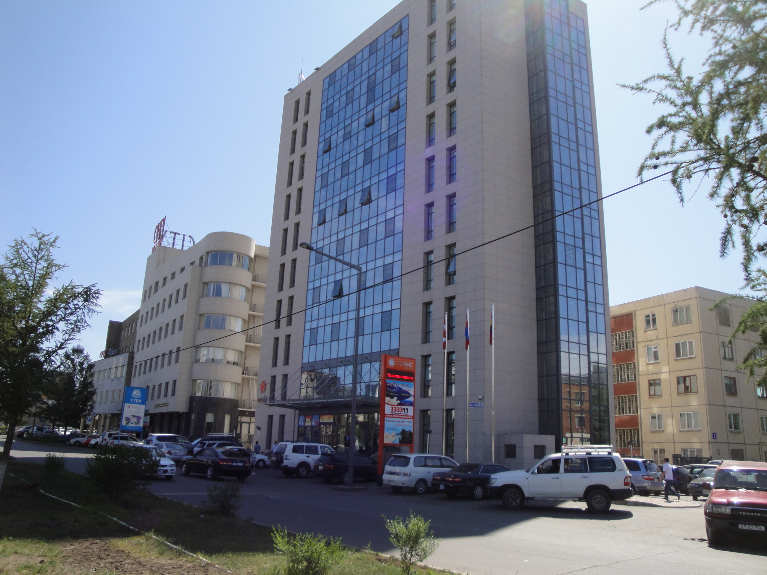 The Canadian Embassy in Ulaanbaator, Mongolia. This building formerly housed the Canadian Embassy in Ulaanbbaator. It also is home to Eznis Airways, and maybe the German Embassy.